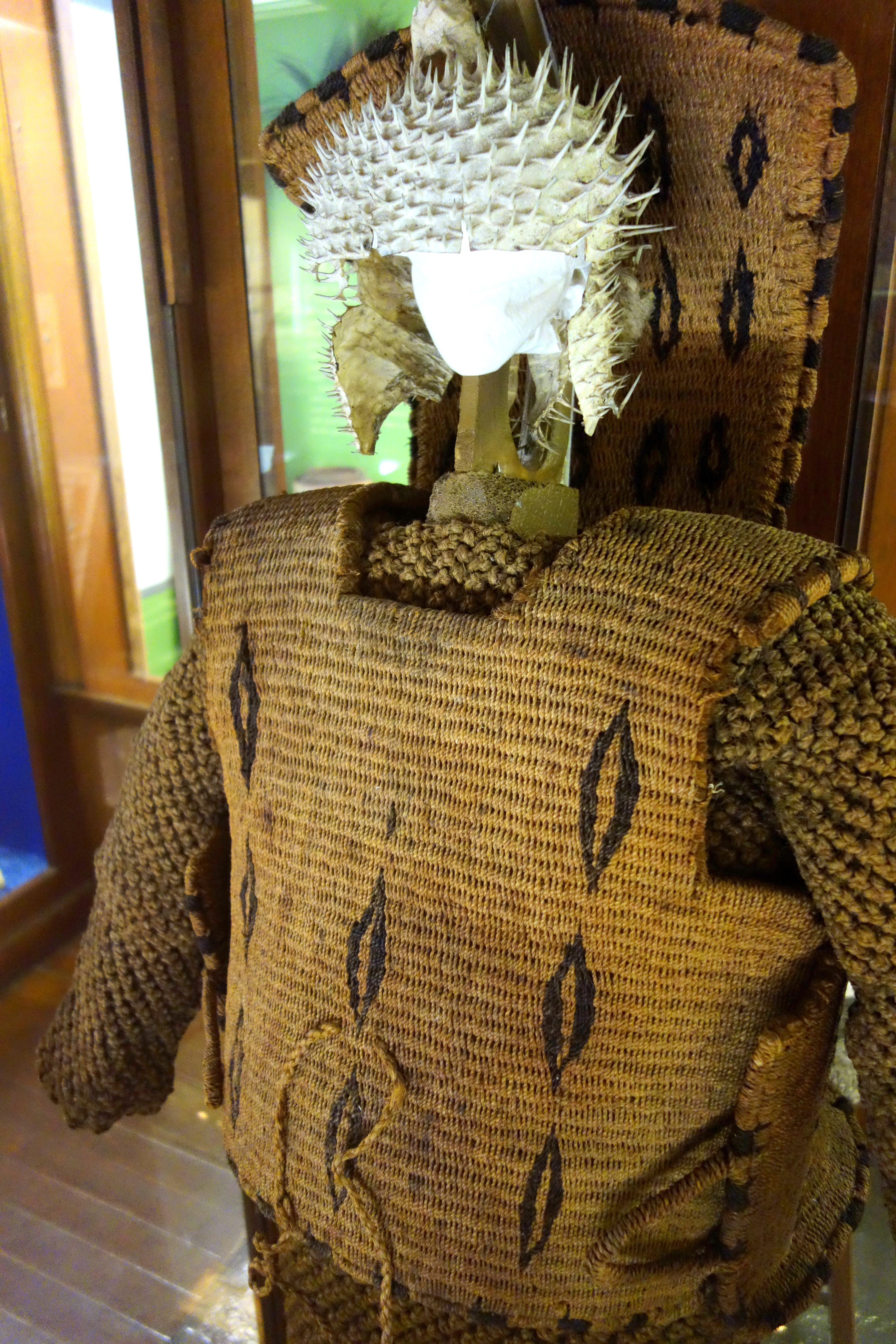 Armor and helmet, Gilbert Islands, late 1800s, woven coconut fiber, blowfish skin - Fairbanks Museum and Planetarium, St. Johnsbury, Vermont, USA.